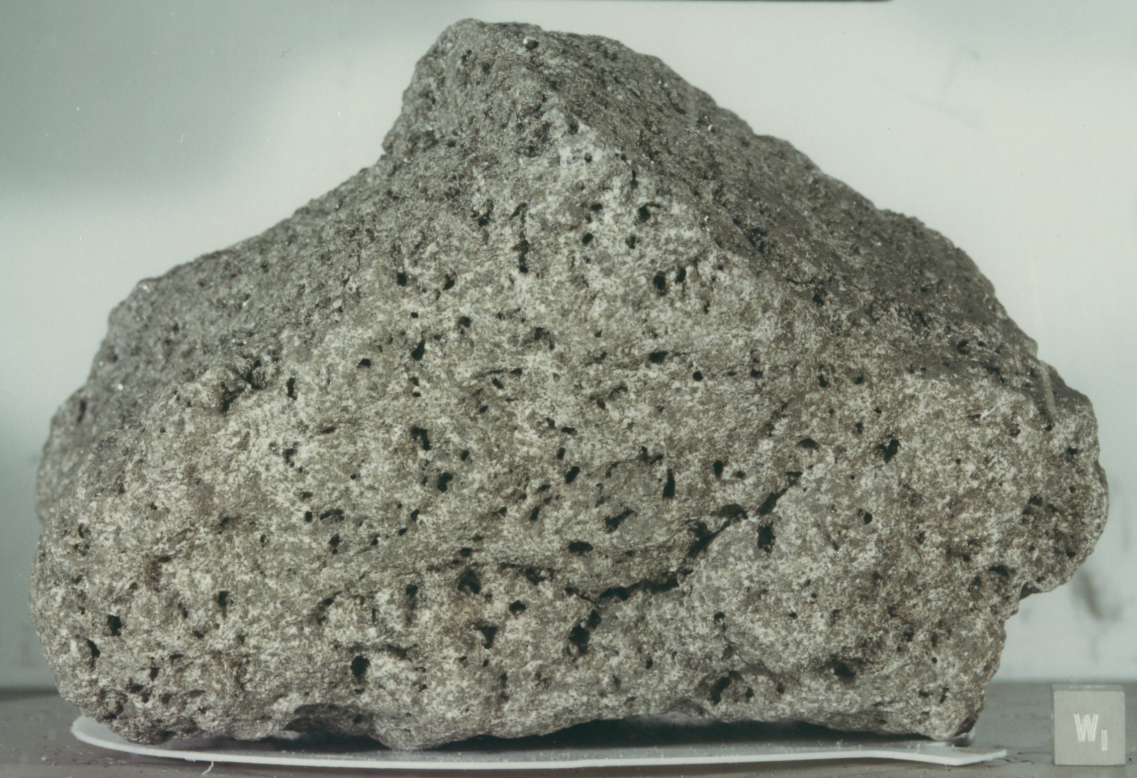 Lunar basalt 70017 moon rock from Apollo 17. It is a vesicular, medium-grained, high-titanium ilmenite basalt. It is 3.7 billion years old. (source of information: Meyer, C. (2008) 70017 Ilmenite Basalt 2957 gram, Lunar Sample Compendium, NASA.)